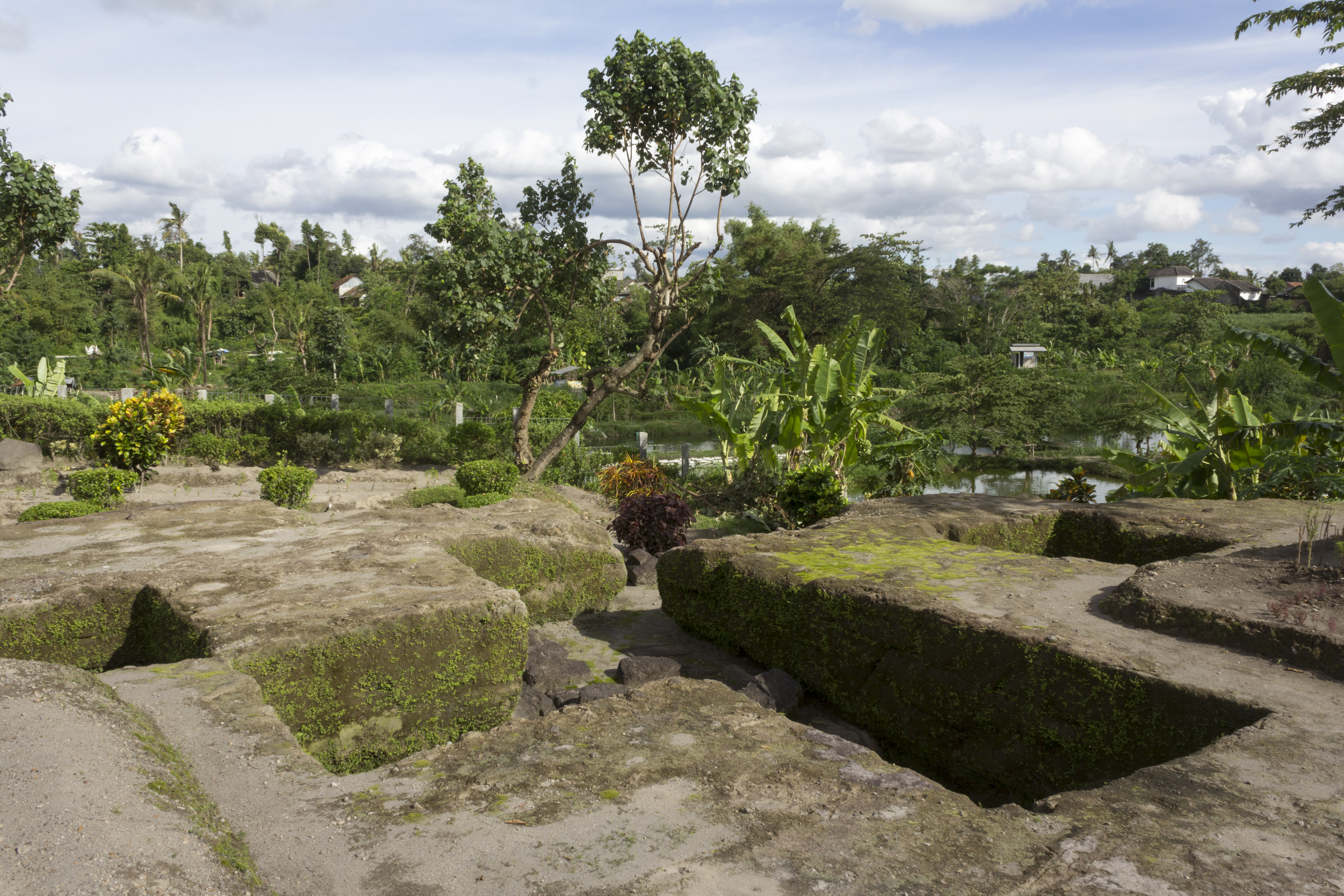 Candi Kadisoka excavation site